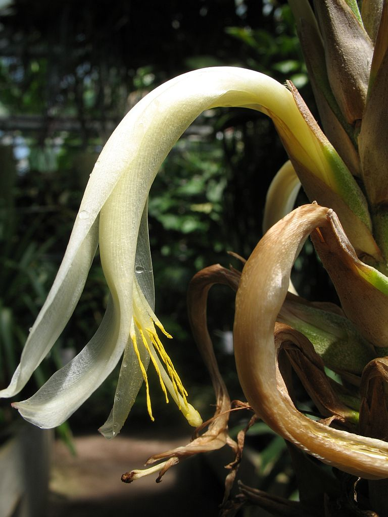 Pitcairnia recurvata in cultivation at the Botanical Garden of Heidelberg, Germany.